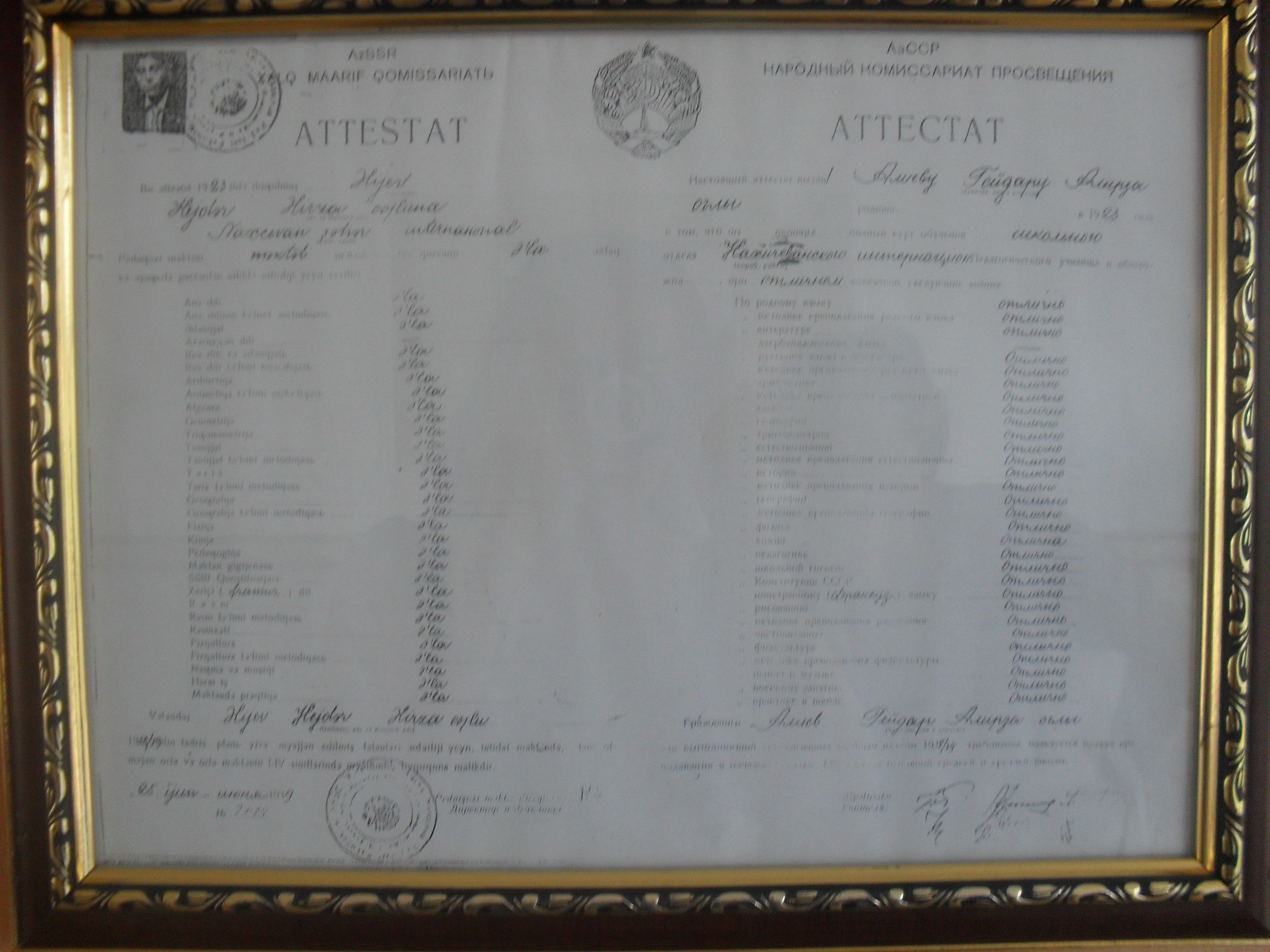 Shahbuz Kend. A copy of Heydar Aliev's high school graduation certificate.